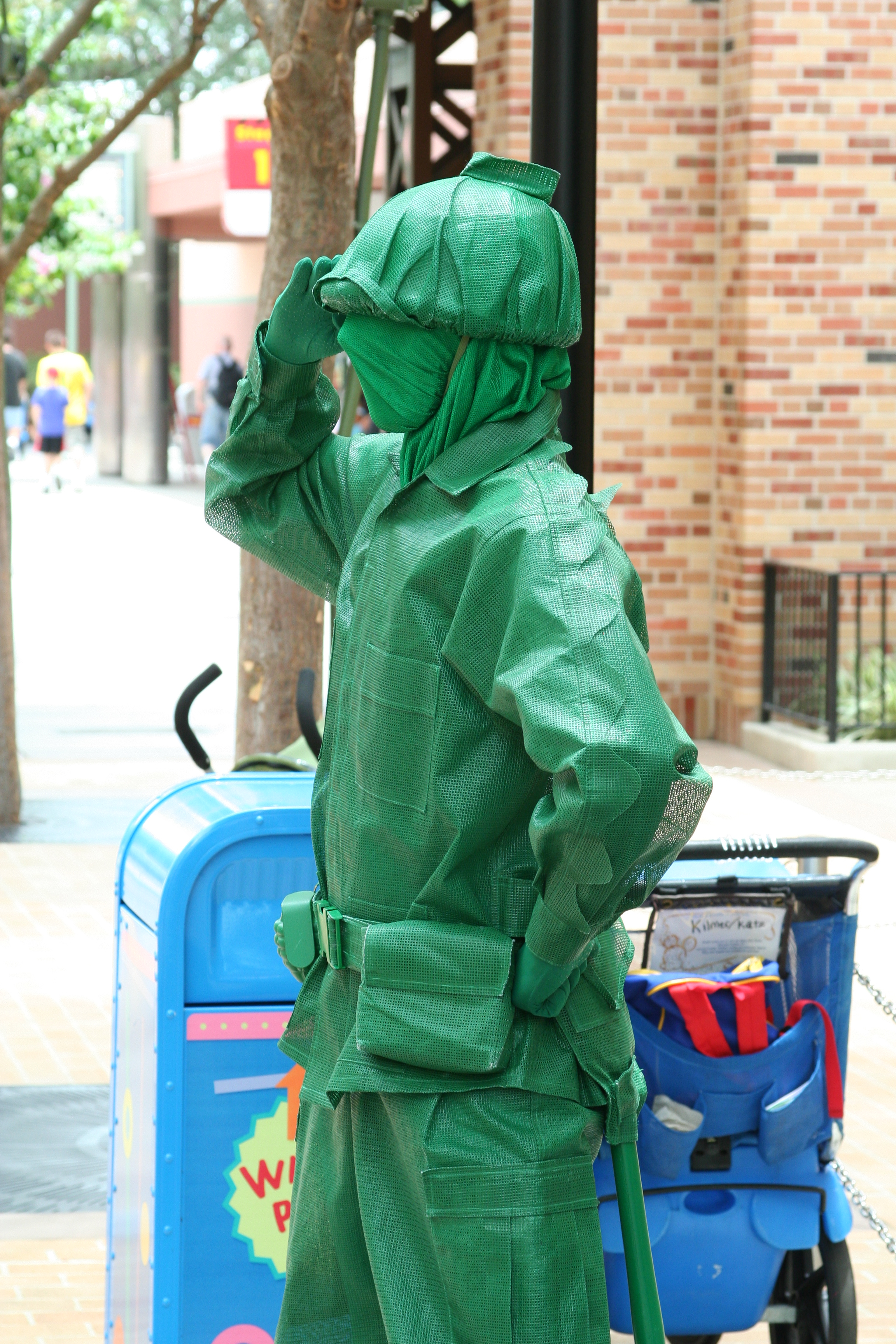 Green Army Man from Toy Story at Disney Hollywood Studios